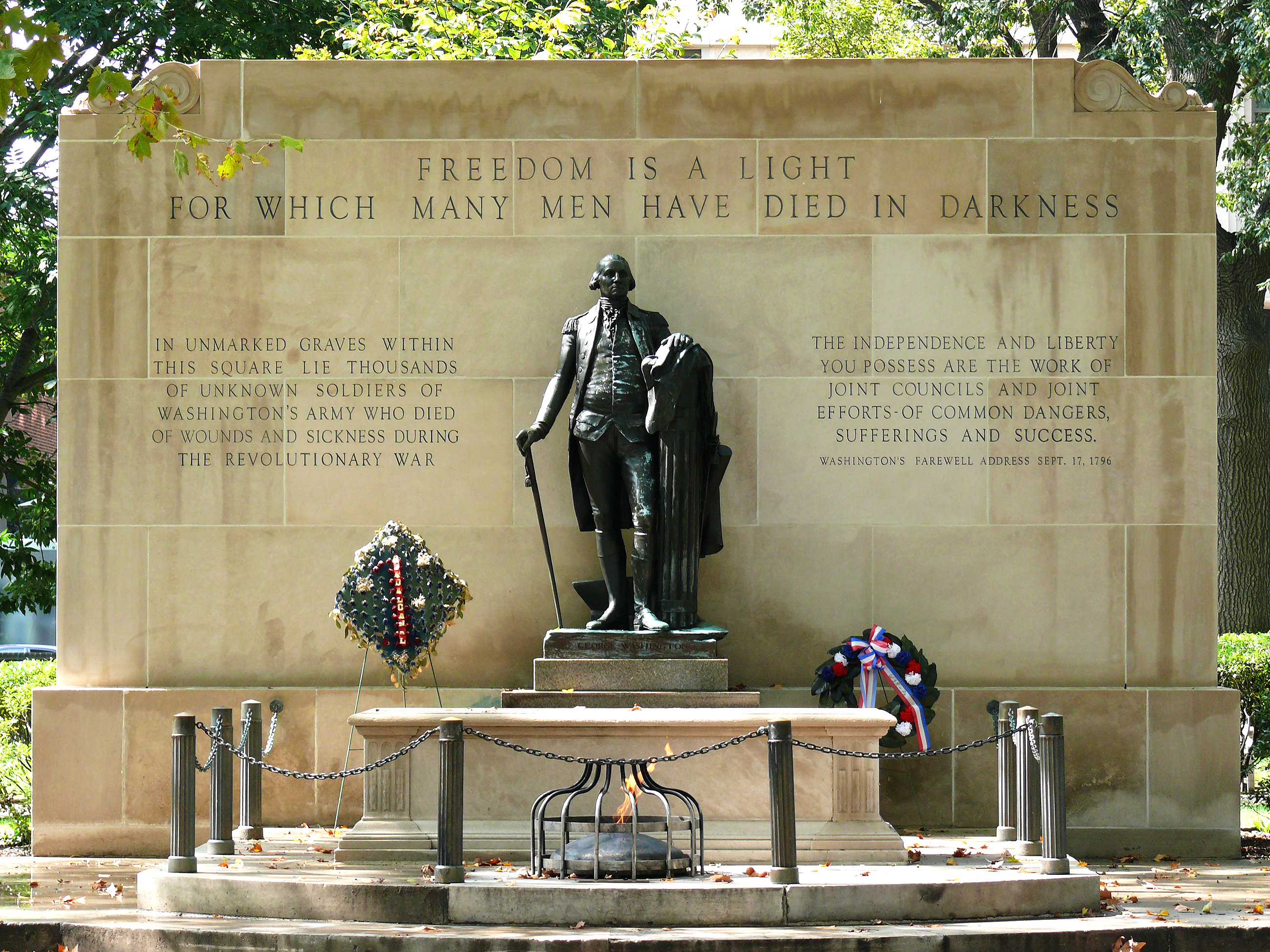 The Tomb of the Unknown Revolutionary War Soldier in Washington Square, Philadelphia, PA, USA, featuring a replica of Jean-Antoine Houdon's famous bronze sculpture of George Washington. Photo taken with a Panasonic Lumix DMC-FZ50.